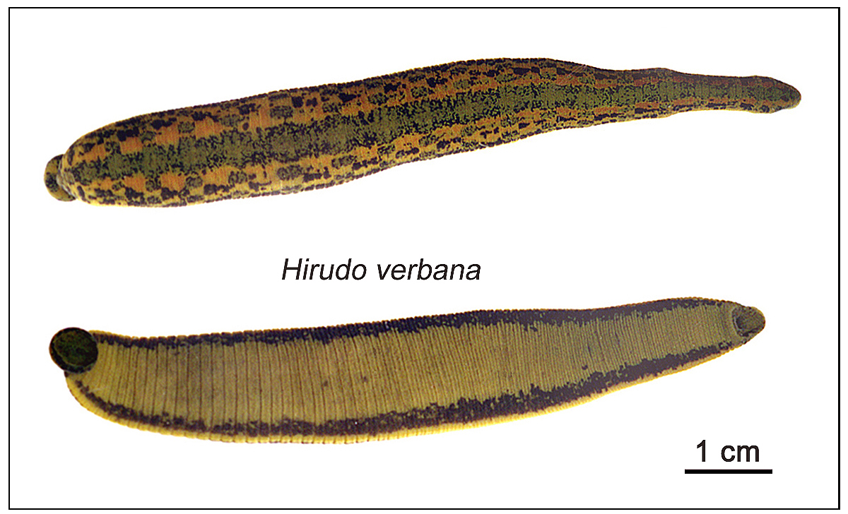 Hirudo verbana